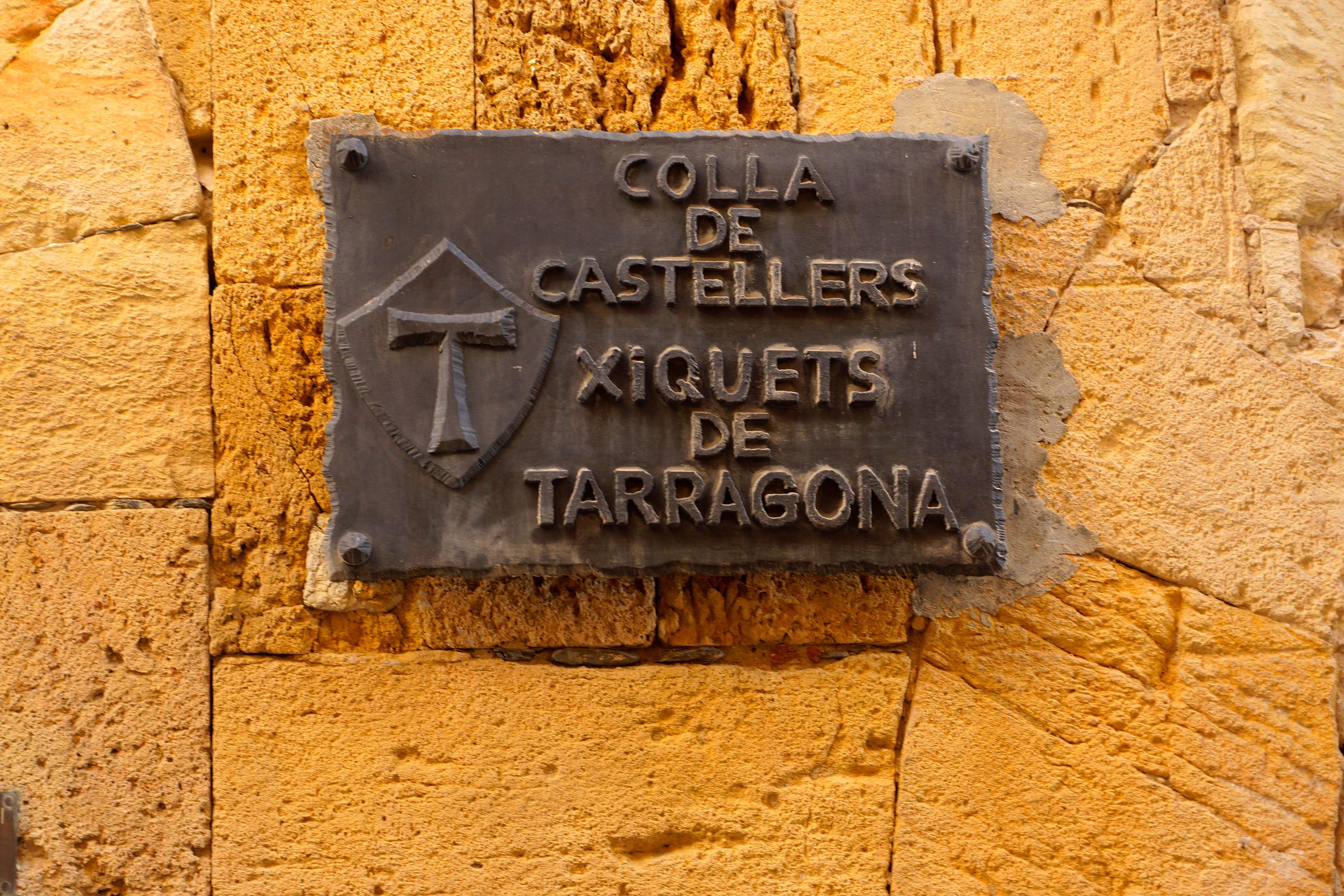 Tarragona, Catalonia: Plaque Xiquets de Tarragona